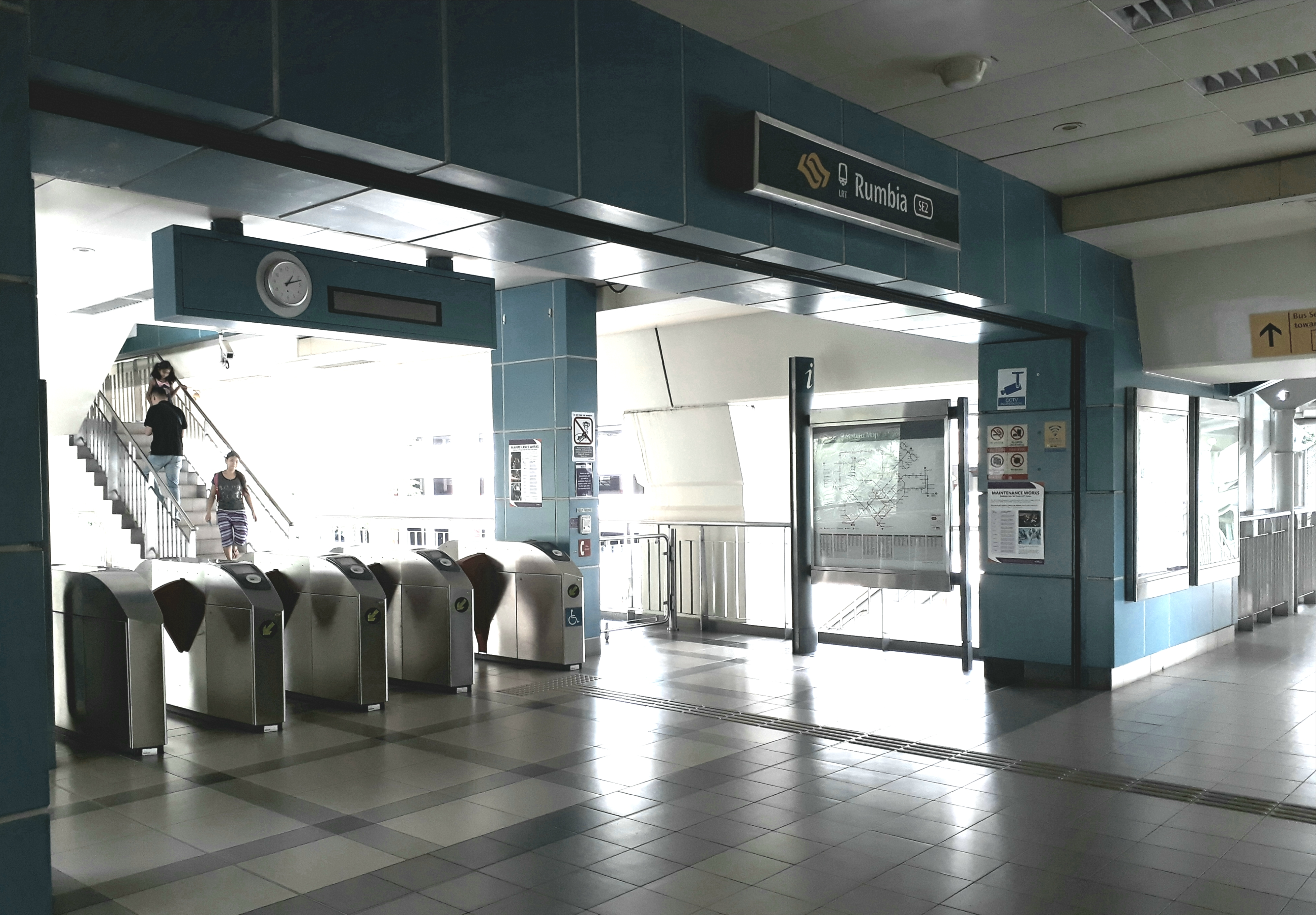 Concourse level of Rumbia